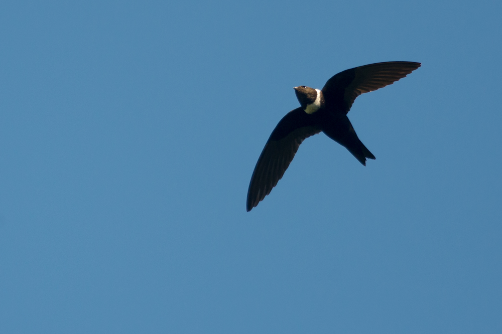 Streptoprocne zonaris, White-collared Swift